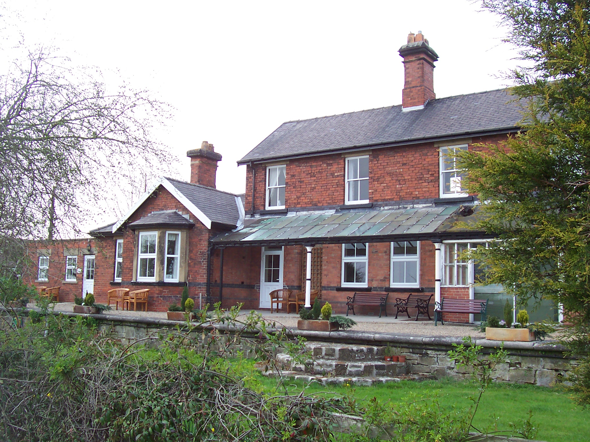 Thornton Dale railway station, south of the village of Thornton-le-Dale, North Yorkshire. Photographed 12 April 2007.